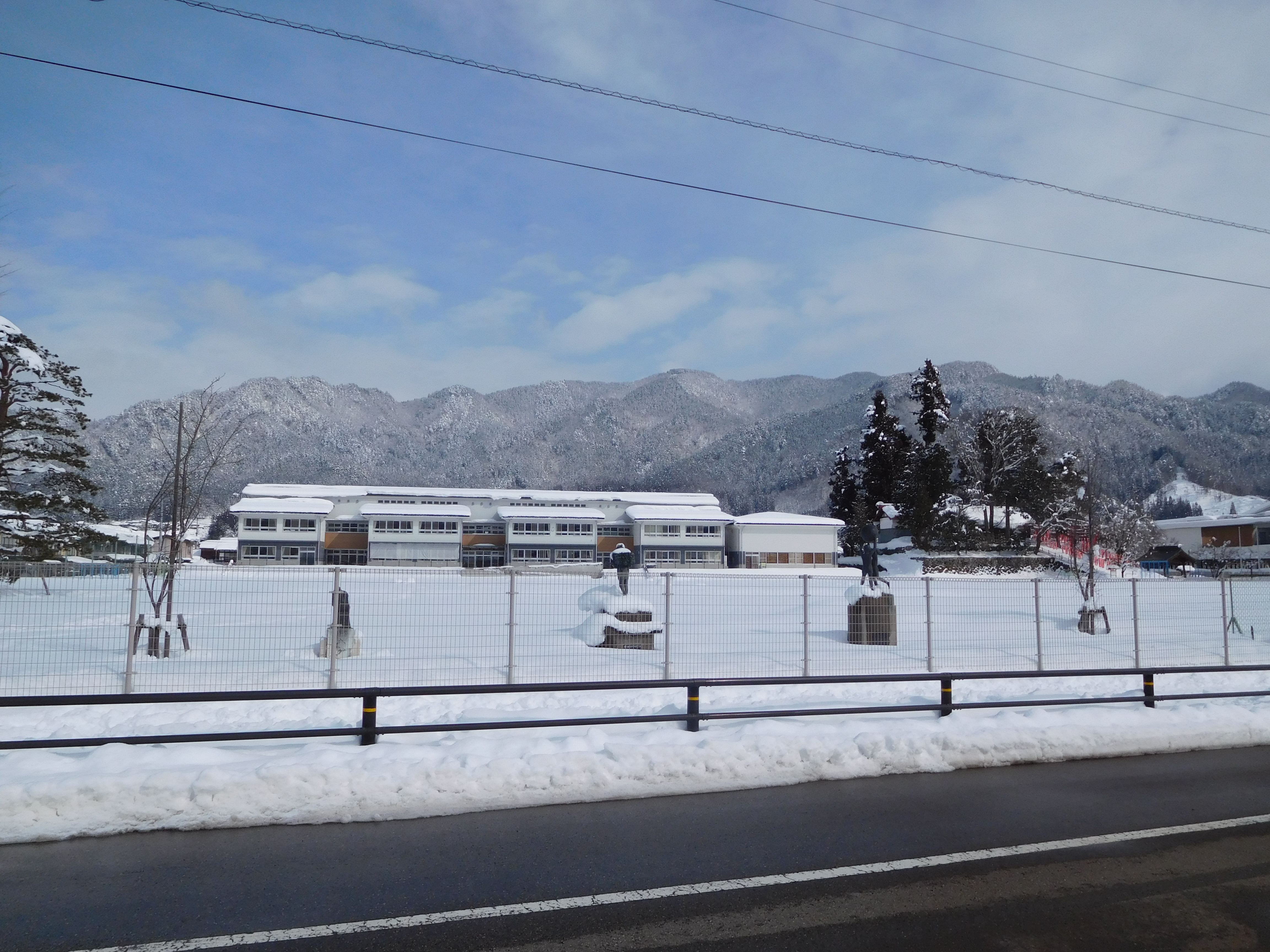 This is the ground of Hida city Furukawa Elementary School in Gifu, Japan. It is also used by Gifu prefectural Hida-Yoshiki special school.